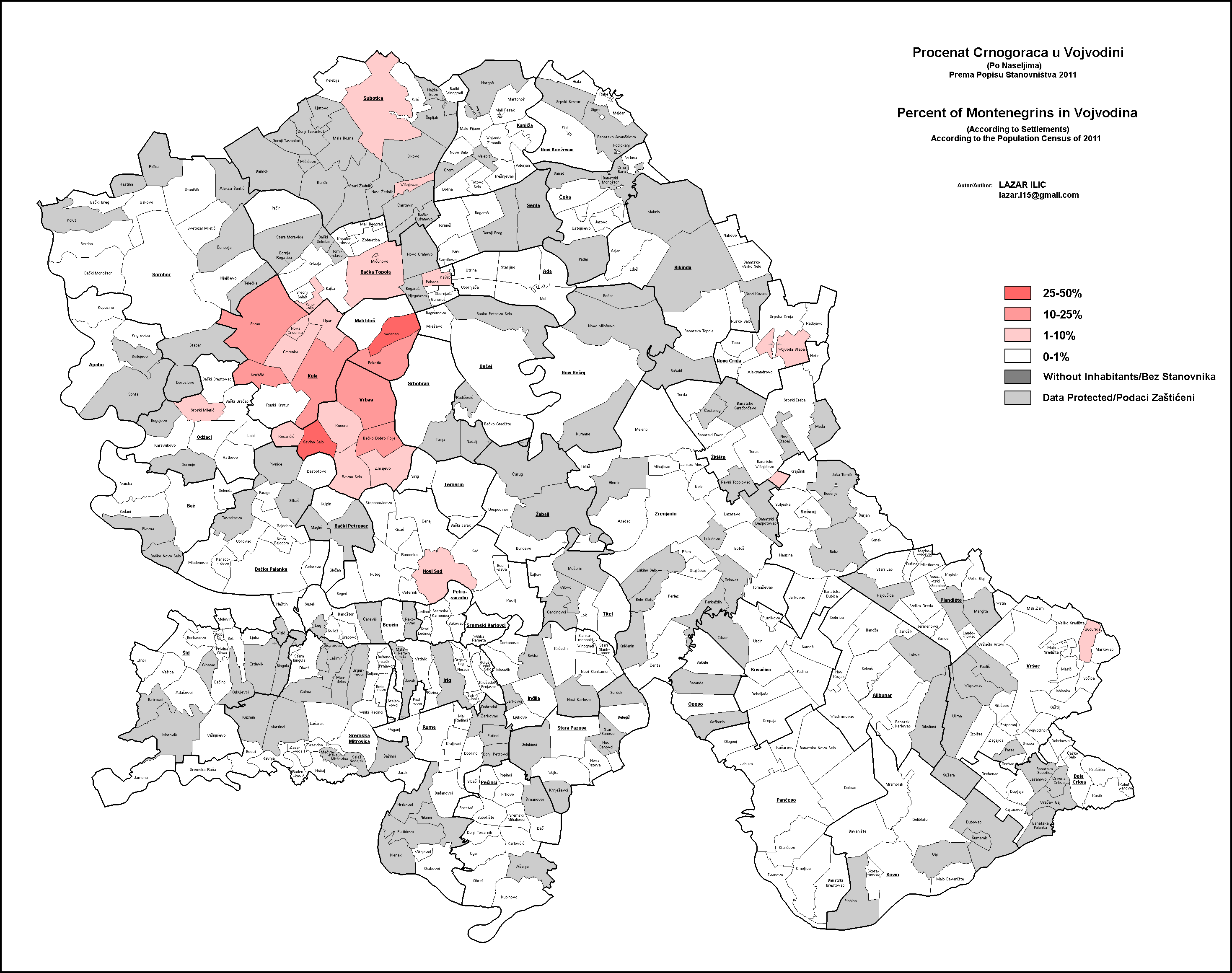 This is an ethnic map of Vojvodina (Northern Serbia) which shows the percent of Montenegrins according to each settlement, according to the 2011 population census.